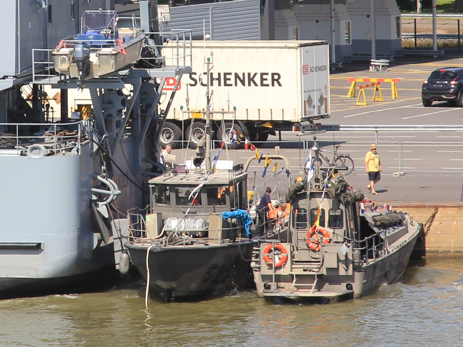 Minesweeper Kiiski 7 (527) and Jurmo class landing craft U613 in Aura river in Turku during Finnish Navy 2014 anniversary. Stern of Halli on the left.